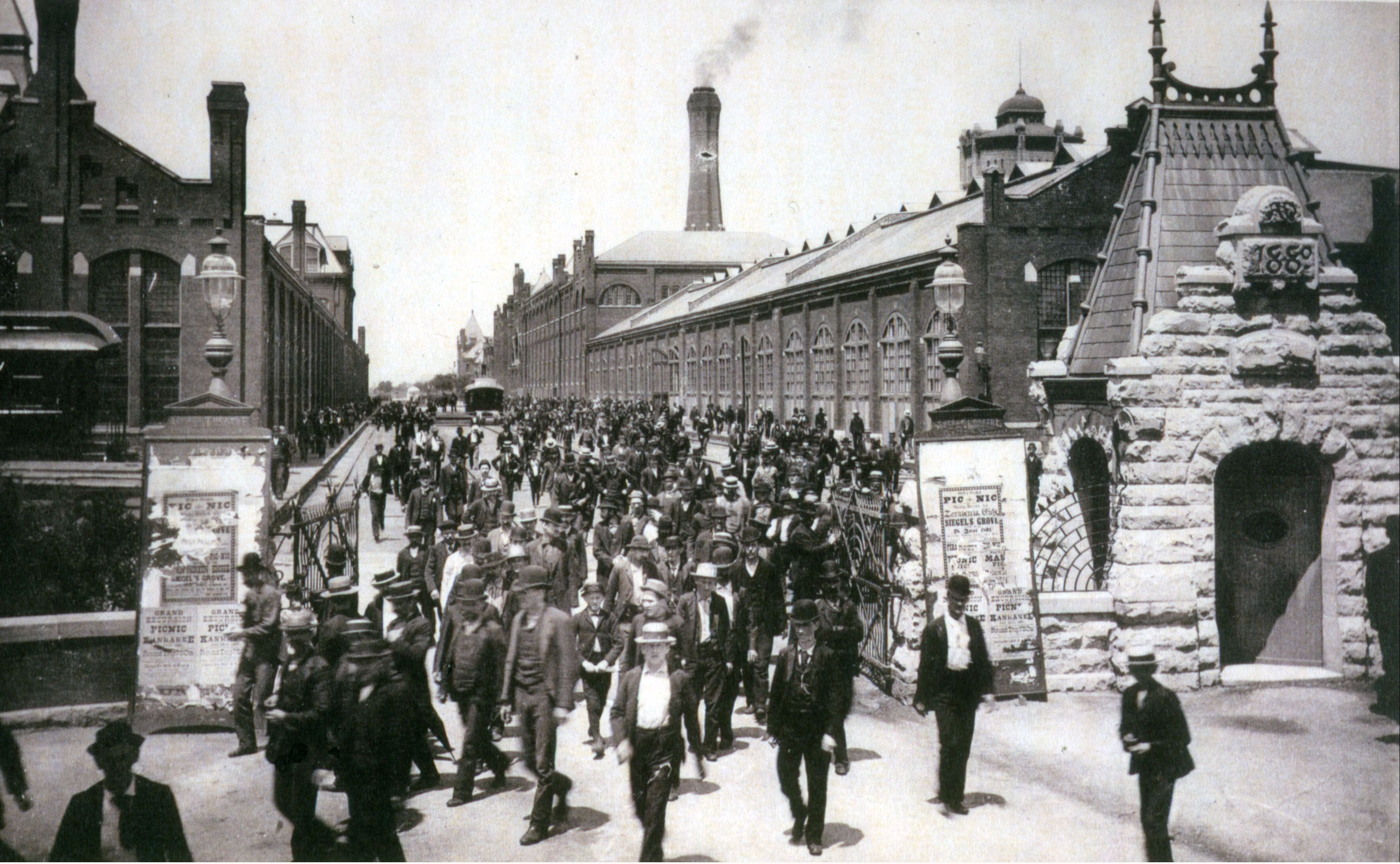 Workers leave the Pullman Palace Car Works, 1893. This picture appeared in a promotional booklet celebrating the paternalistic labor policies of George Pullman. A year later Pullman's workers were at the center of a national strike of rail workers that failed after federal troops intervened.